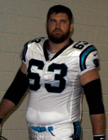 Staff Sgt. Ray Santiago of Fort Benning's Ranger Training Brigade watches the Carolina Panthers as prepare to take the field in the tunnel of the Georgia Dome. The Atlanta Falcons and the Home Depot honored Santiago as their Hometown Hero at the Sept. 30 game against the Carolina Panthers.